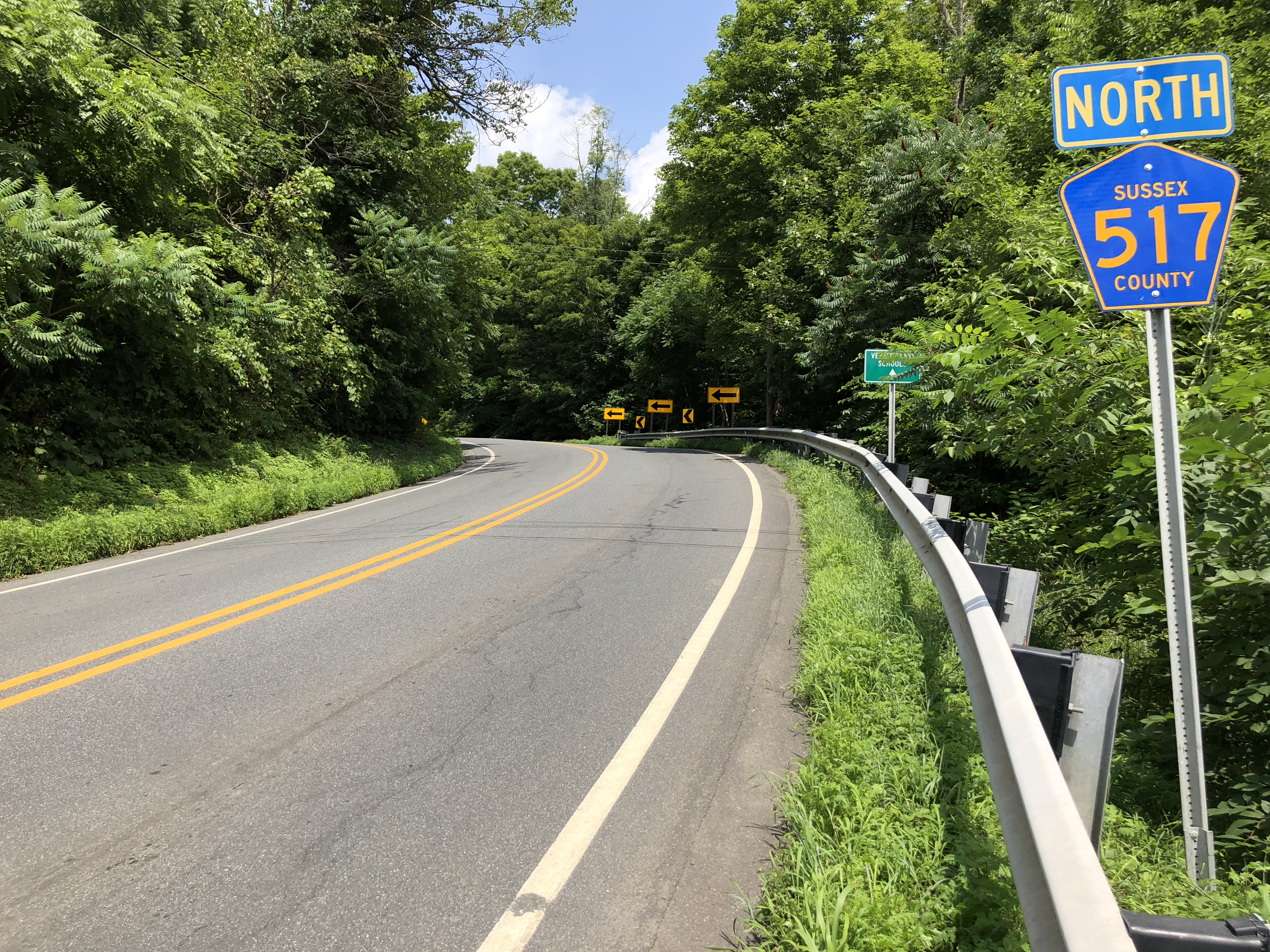 View north along Sussex County Route 517 (McAfee-Glenwood Road) just north of New Jersey State Route 94 (Hamburg-McAfee Road) in Vernon Township, Sussex County, New Jersey